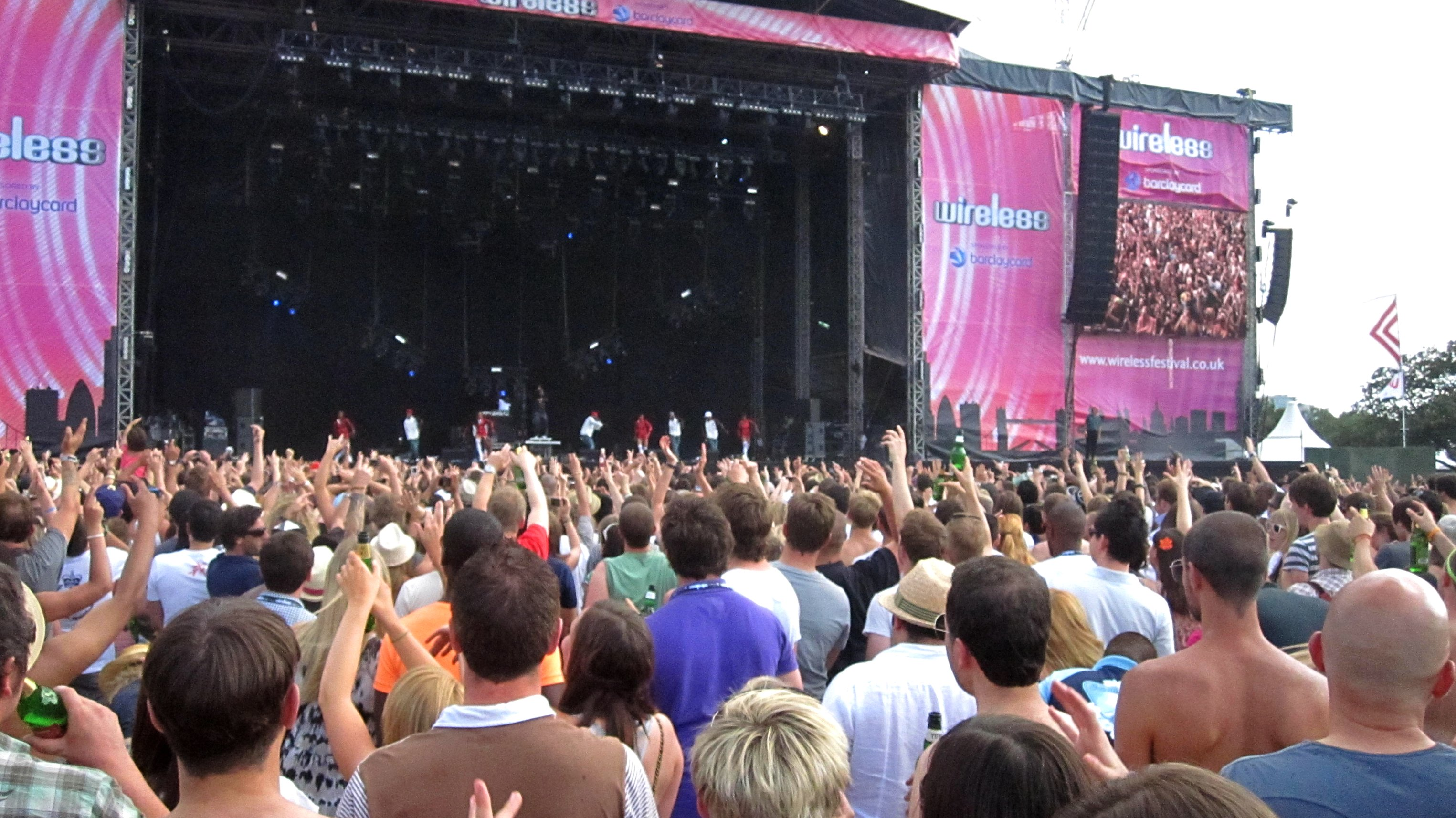 Missy Elliott live in Wireless Festival 2010.